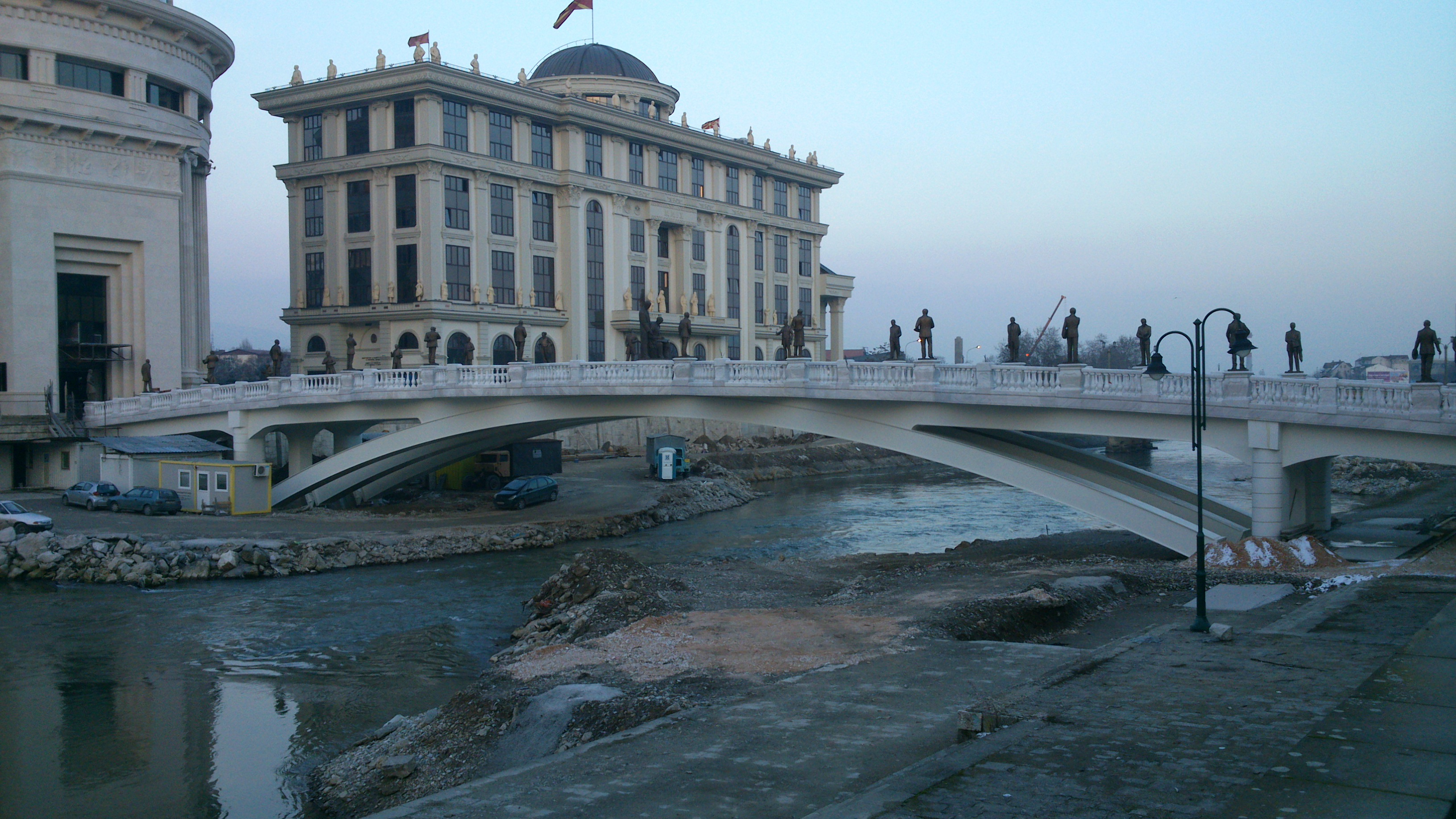 Bridge of Arts in Skopje, Macedonia